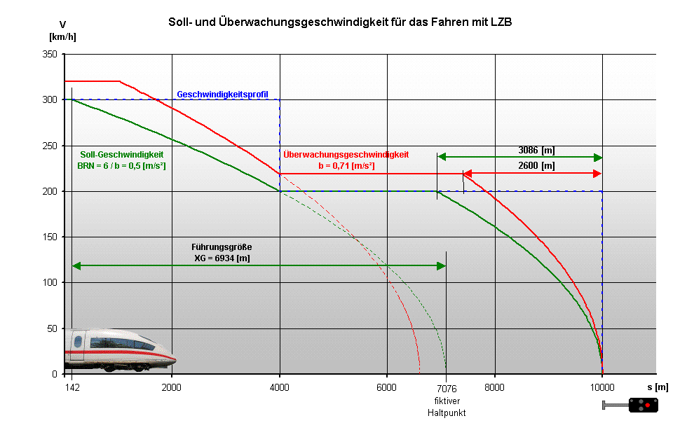 Illustrates the permitted and monitoring speeds for the Linienzugbeeinflussung (LZB) train signaling system. The permitted speed, illustrated in green, is the speed a train is expected not to exceed. If the train exceeds the monitoring speed, illustrated in red, the train's control system will apply the emergency brakes.